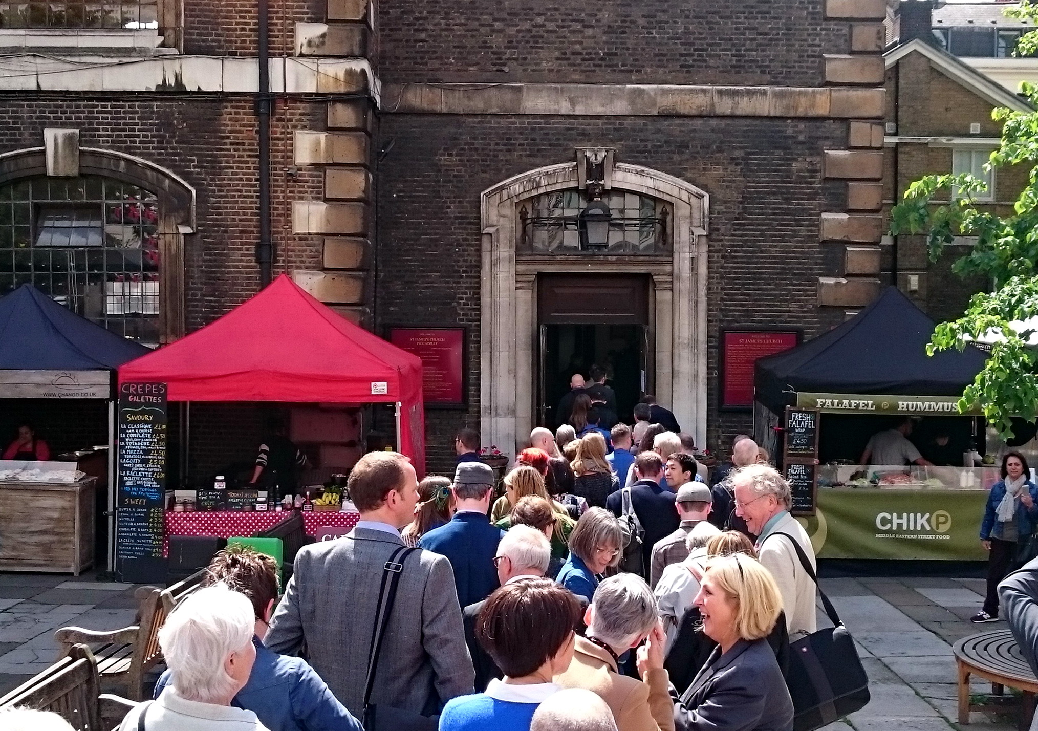 Arrival at St James's church - Edited version